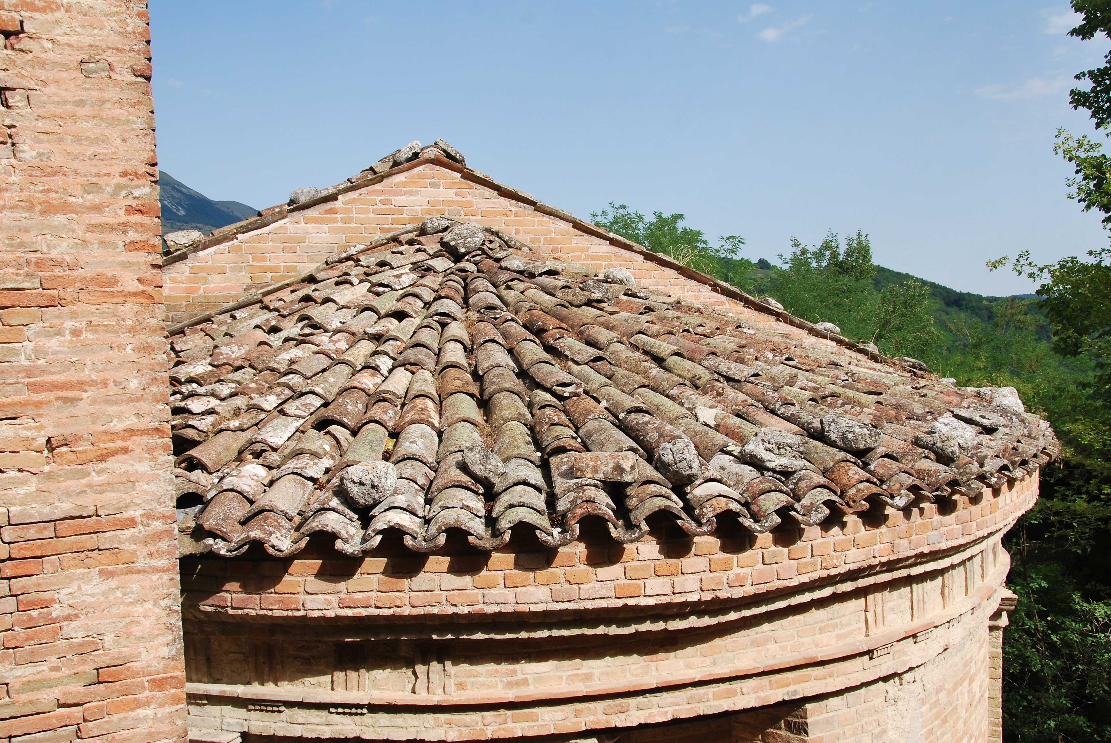 Roof in Montefortino